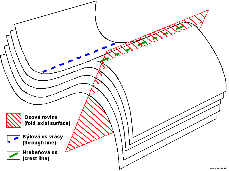 scheme of fold geometry in Slovak and EnglishSlovenčina: geometria vrás s popisom po slovensky a anglicky